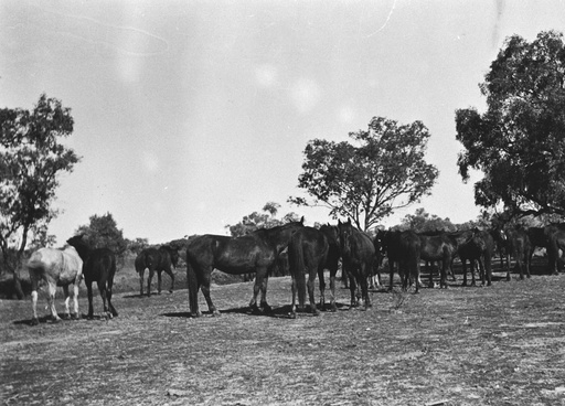 Horses on Macumba Station 1912